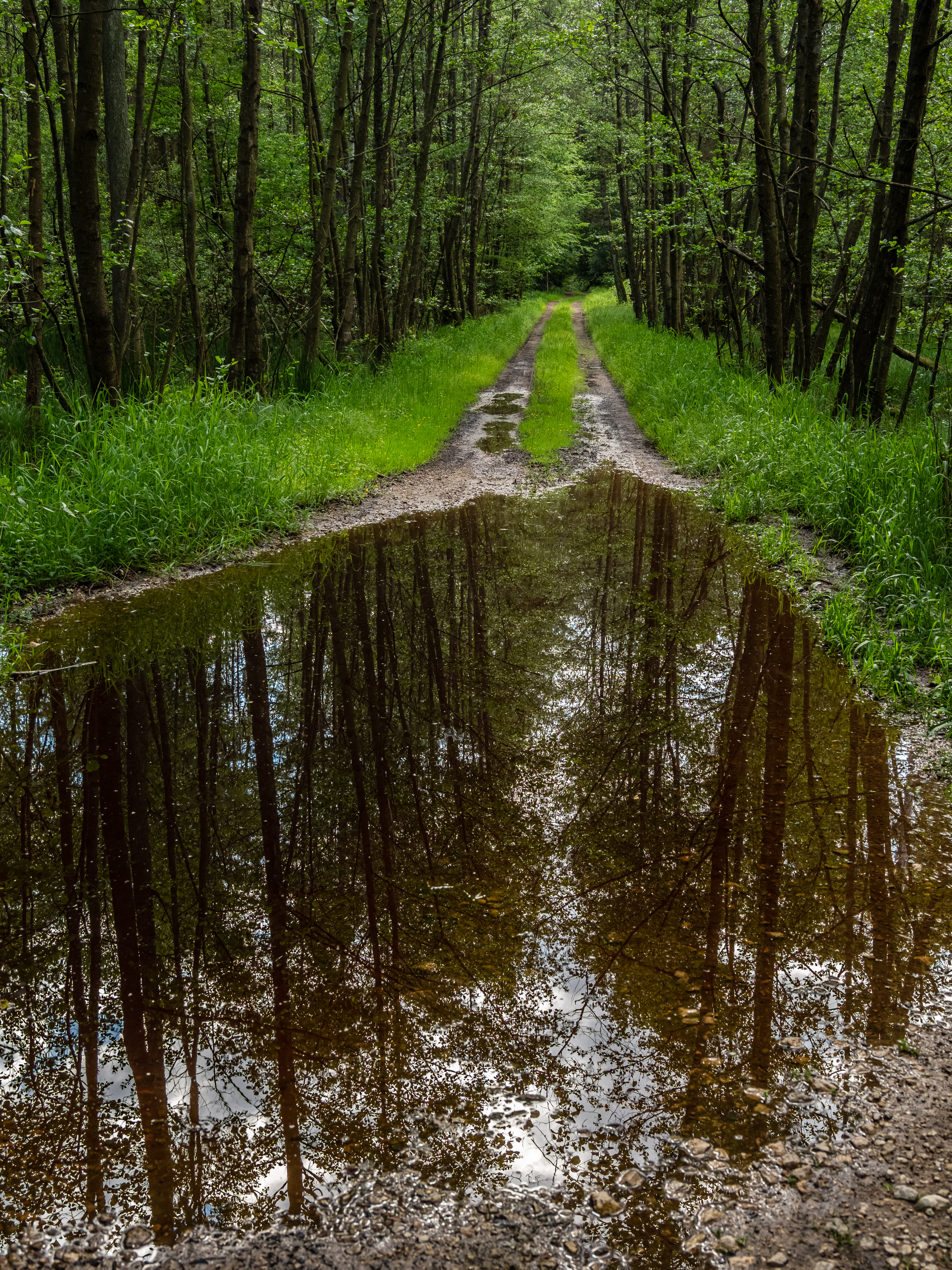 Water puddle on a forest path in the main moorland forest in Bamberg